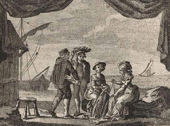 Description: Illustration of Act 1, Scene 1 of Carlo Goldoni's Le pescatrici from Carlo Goldoni, le opere teatrali, Vol. XLIV p. 235, published in Venice by Antonio Zatta, 1795. Artist: Pietro Antonio Novelli